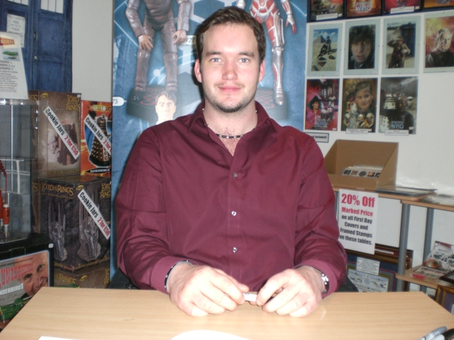 Gareth David-Lloyd at The Television & Movie Store on 6th December 2008.